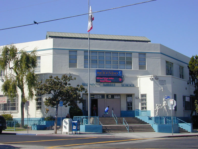 Berendo Middle School, LAUSD, Los Angeles CA